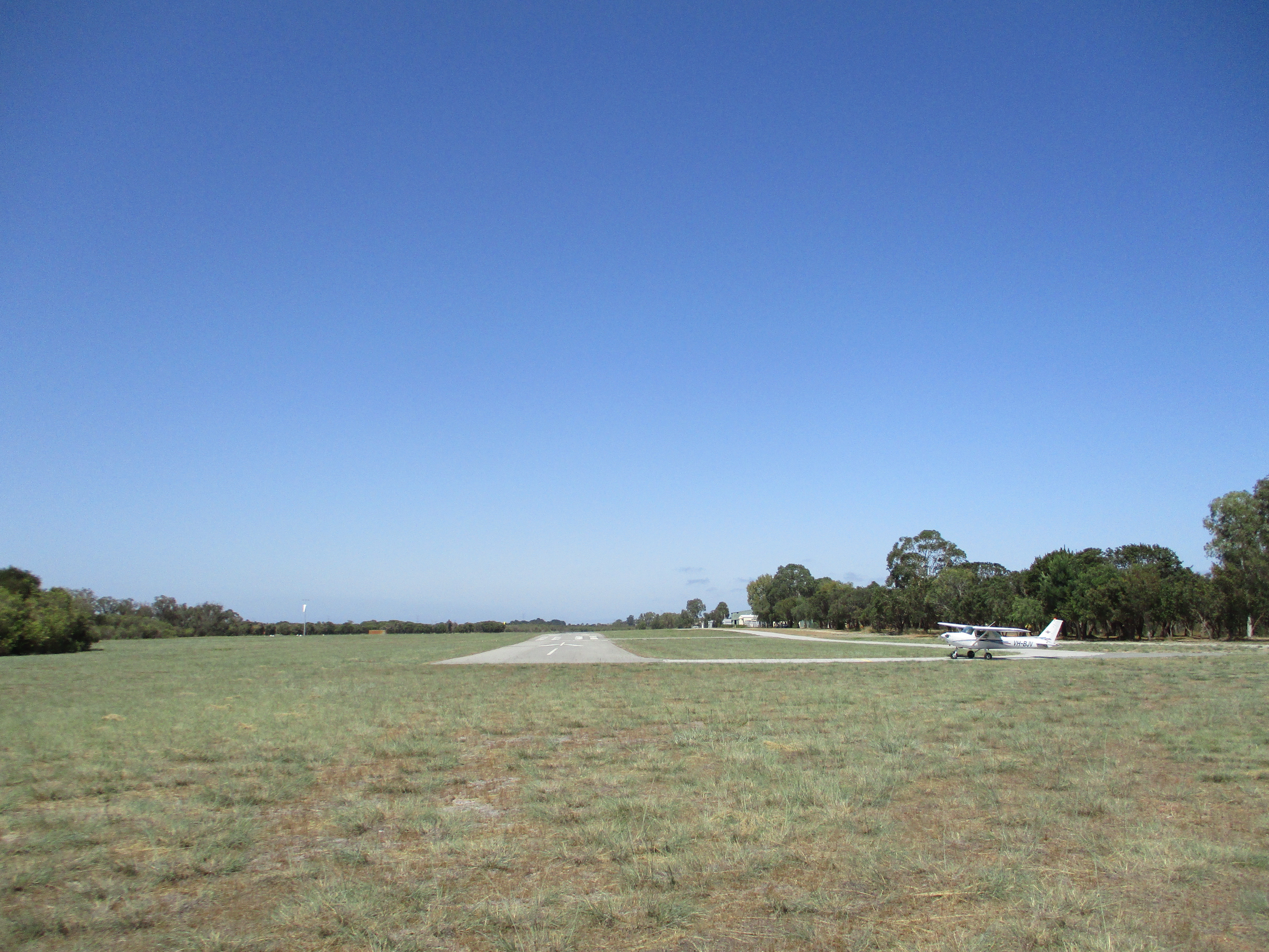 Serpentine Airfield, Hopeland, Western Australia. The airfield belongs to the Sport Aircraft Builders Club of Western Australia.